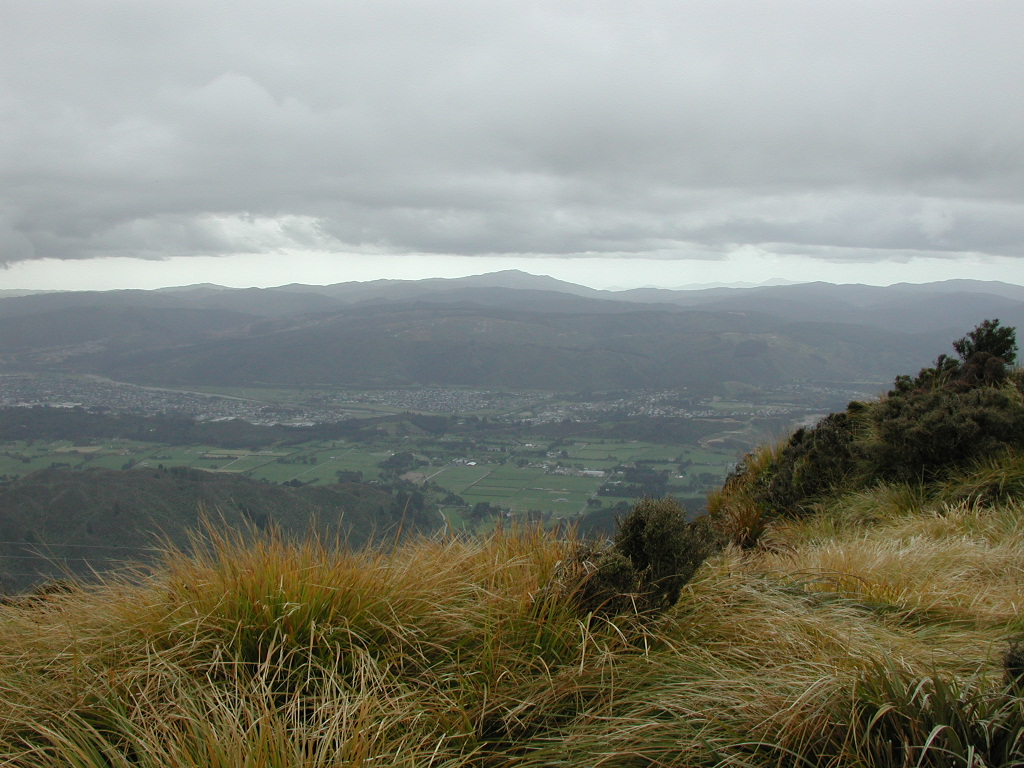 View west from Mount Climie down into Hutt Valley towards Upper Hutt. Tussock grass in the foreground.